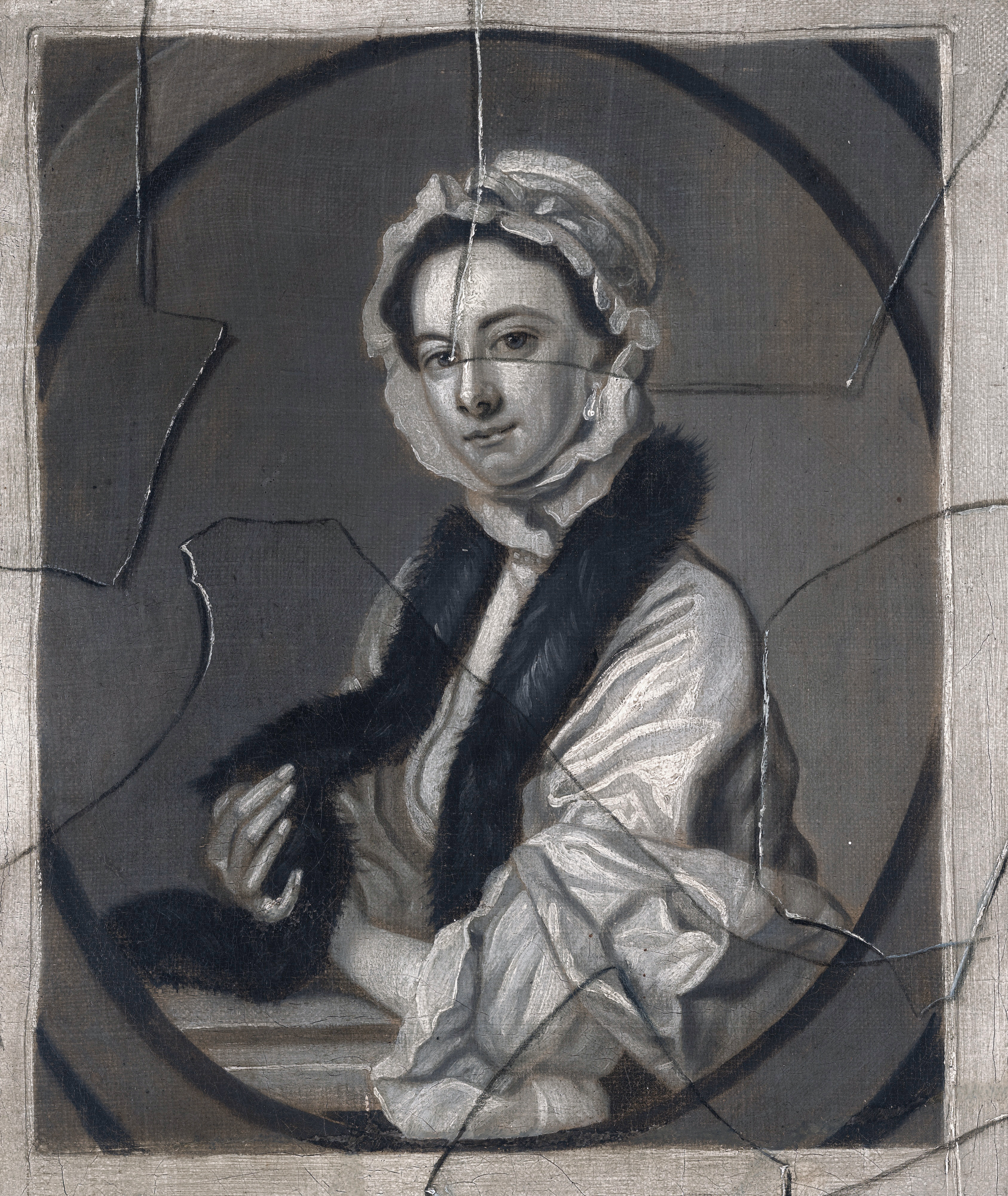 A trompe l'oeil with a portrait of Mrs. John Faber the younger, the engraver's wife, after Thomas Hudson